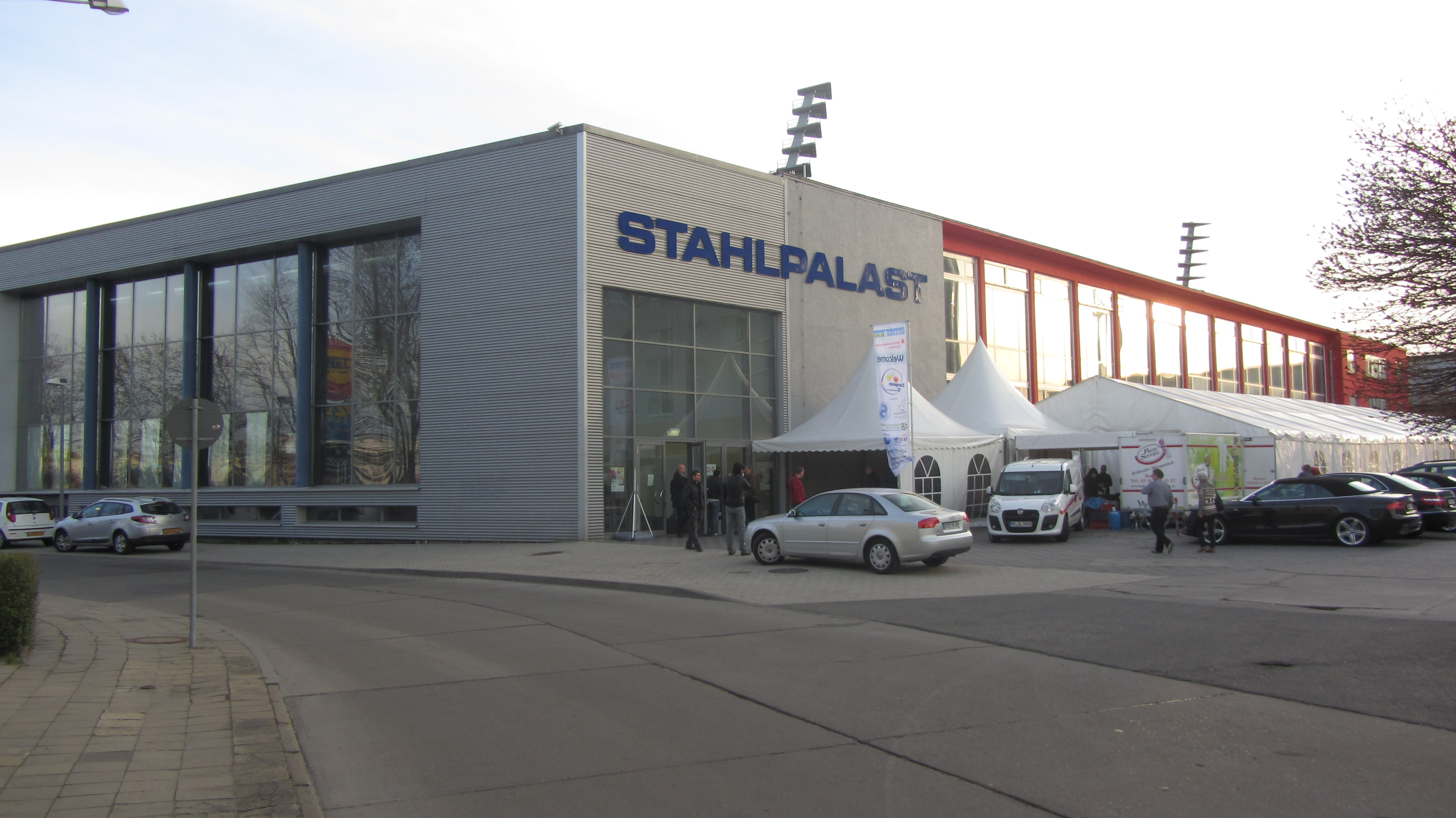 2013 European Carom Billiards Championship in Brandenburg/Havel, Germany.